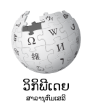 A logo for Wikipedia in the Lao language.